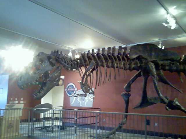 This is a picture of a Tyrannoaurus rex skeleton.